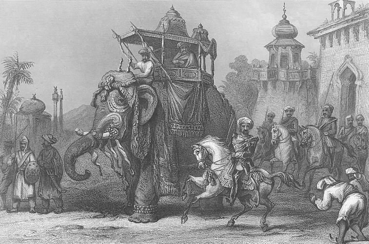 The Nana Sahib with his escort, Leaving Lucknow to meet the Rebel Force advancing from Malwa. Anonymous engraver. London Printing and Publishing Co. Steel engraved print.